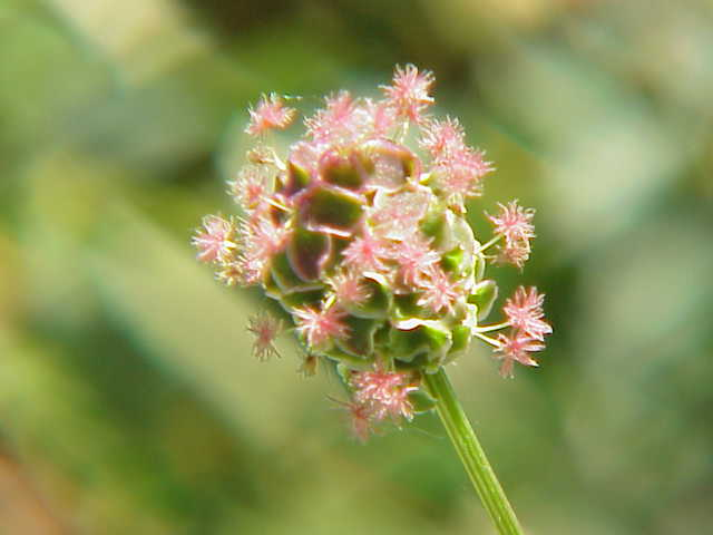 Species: Sanguisorba minor Family: Rosaceae Image No. 1